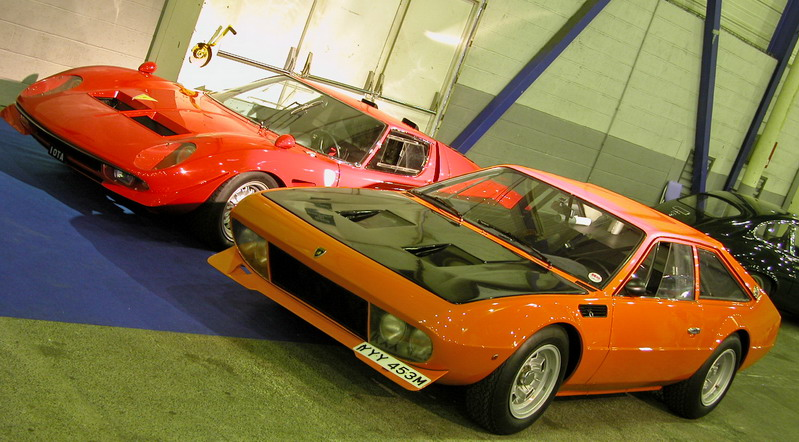 Lamborghini Jarama Bob Wallace und a recreation of the Lamborghini Miura Jota.